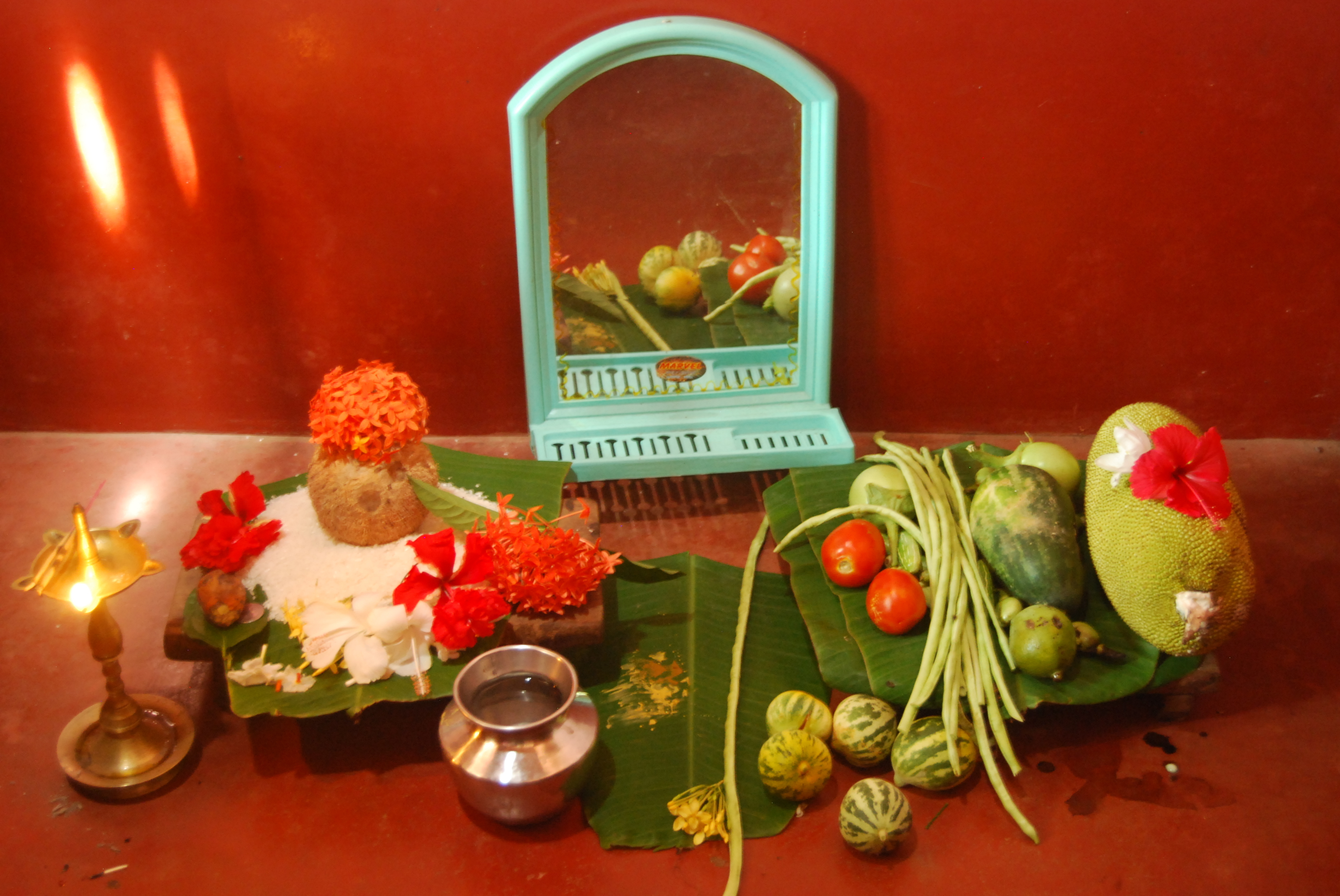 ಬಿಸು ಕಣಿ, ತುಲುವರೆರ್ನ ಪೊಸ ವರ್ಸೋ ಆಚರ್ನೆ